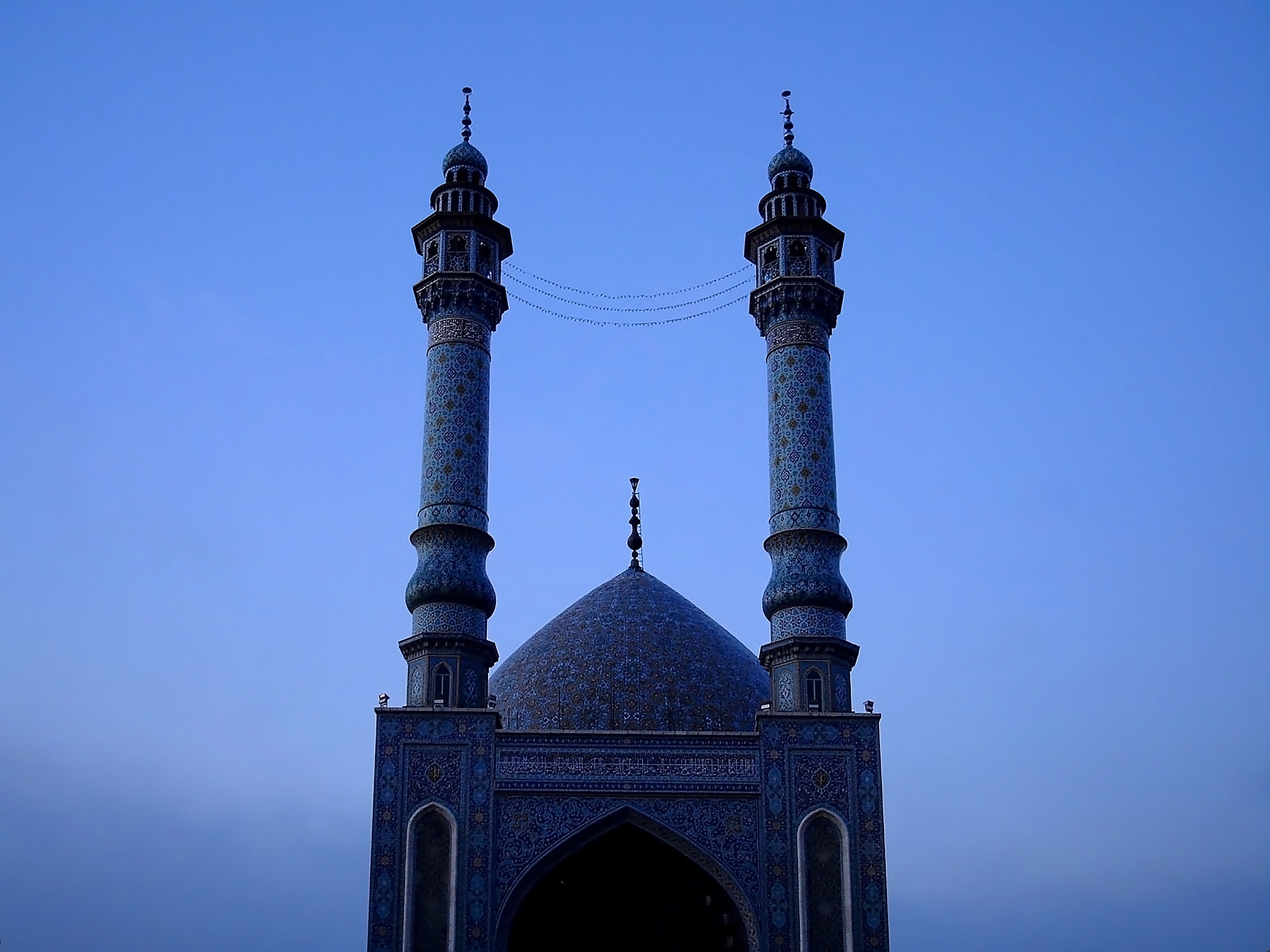 Qom also spelled as Ghom, is the eighth largest city in Iran. It lies 125 kilometres (78 mi) by road southwest of Tehran and is the capital of Qom Province. At the 2011 census its population was 1,074,036 (957,496 at the 2006 census, in 241,827 families), comprising 545,704 men and 528,332 women. It is situated on the banks of the Qom River. Qom is considered holy by Shiʿa Islam, as it is the site of the shrine of Fatema Mæ'sume, sister of Imam `Ali ibn Musa Rida (Persian Imam Reza, 789–816 AD). The city is the largest center for Shiʿa scholarship in the world, and is a significant destination of pilgrimage. Qom is famous for a brittle toffee called “Sohan” (Persian:سوهان), considered a souvenir of the city and sold by 2,000 to 2,500 “Sohan” shops.